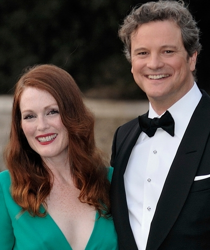 Julianne Moore and Colin Firth at the Venice Film Festival premiere of A Single Man